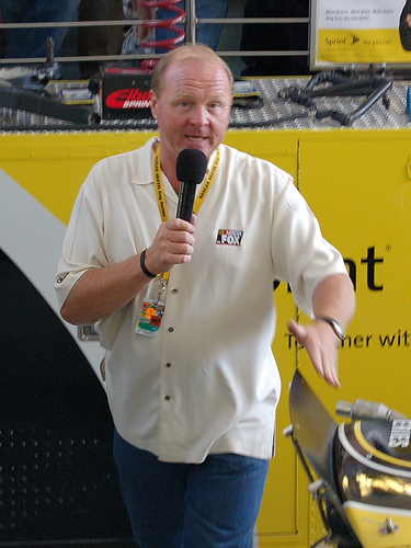 Larry McReynolds, Fox Sports analyst and former NASCAR crew chief